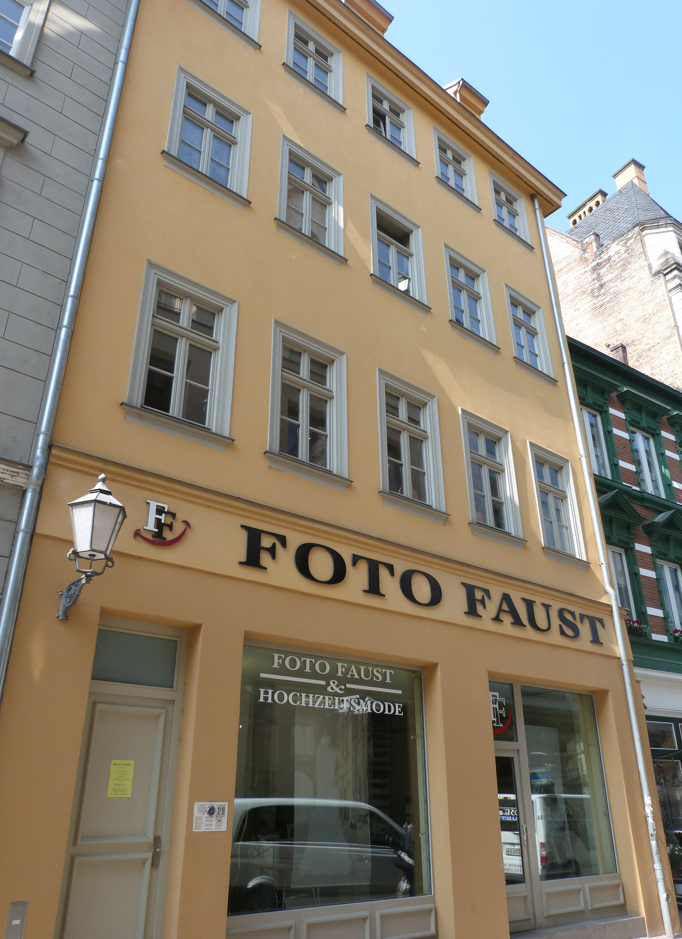 House No. 26, Grosse Märkerstrasse, Halle (Saale)